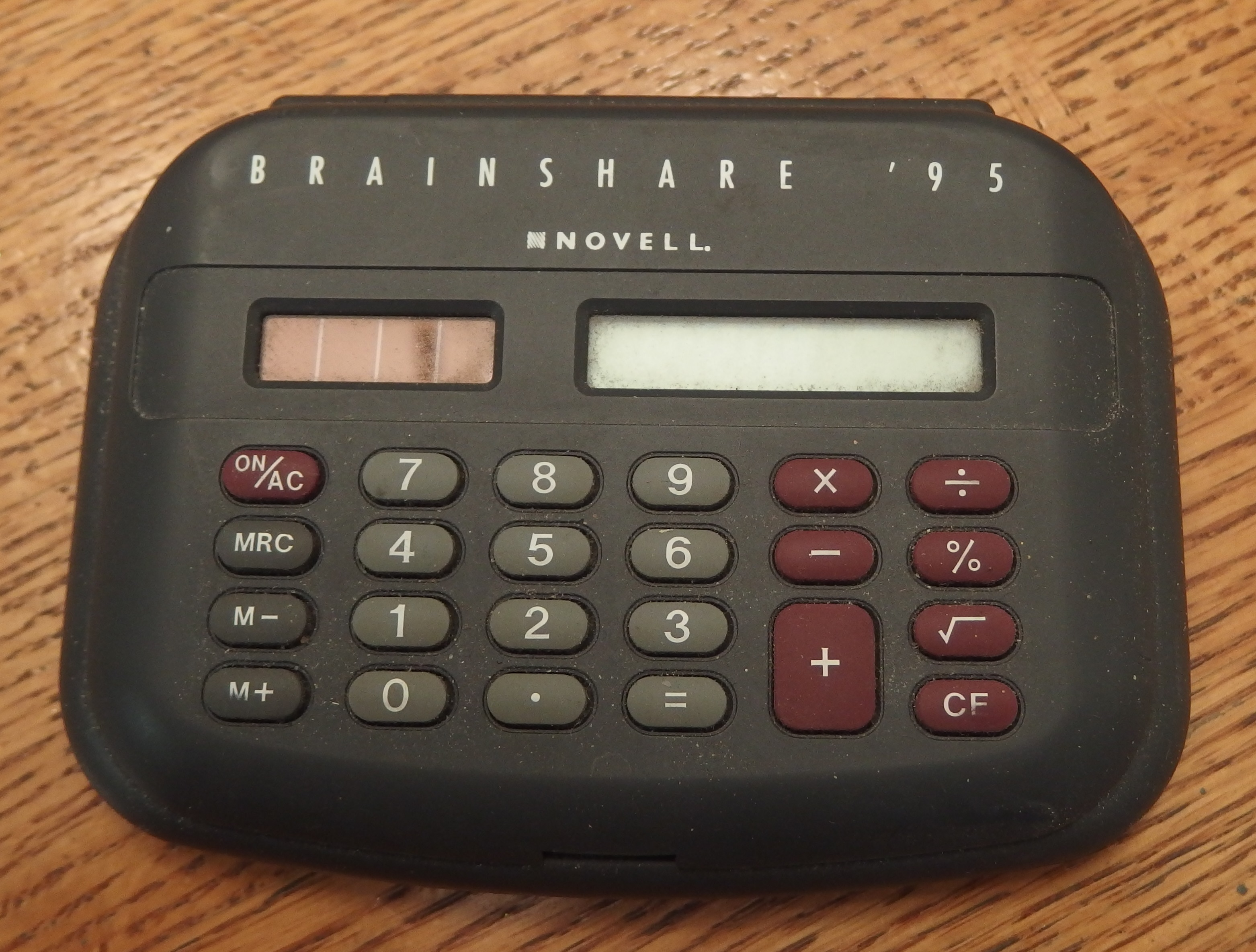 Electronic calculator branded for the Novell BrainShare '95 computer conference held in Salt Lake City, Utah in 1995. Manufactured by Alcraft of Rhode Island.